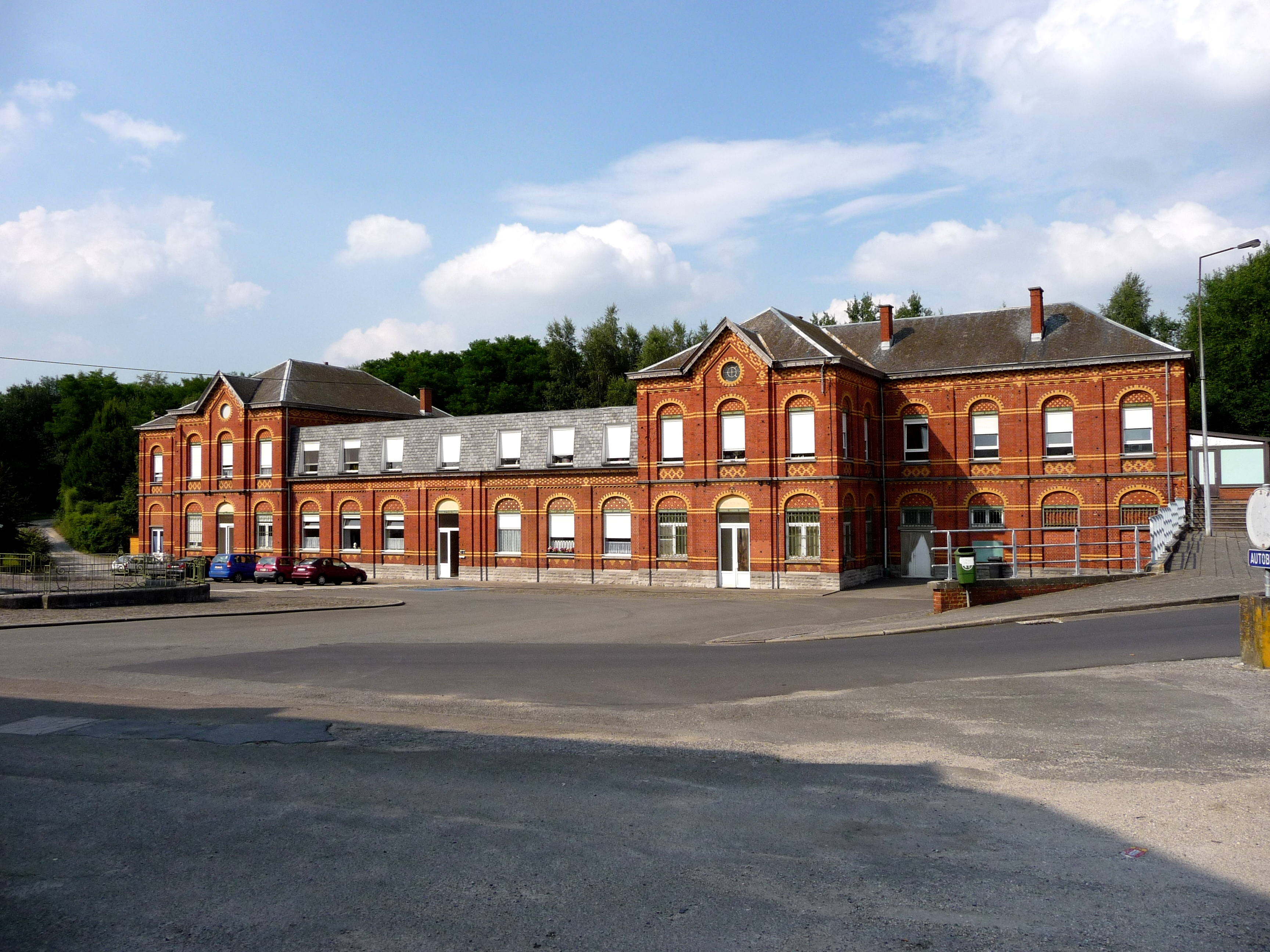 Station Florennes Central, Belgium. This building has been build by Belgian State Railways in the early 1900s on a connection line between former treminal station of Florennes south and Florennes east. Florennes uses to have 3 stations, due to the diversity of private companies established there. Nowadays, none of those stations are still connected to the belgian railway network.